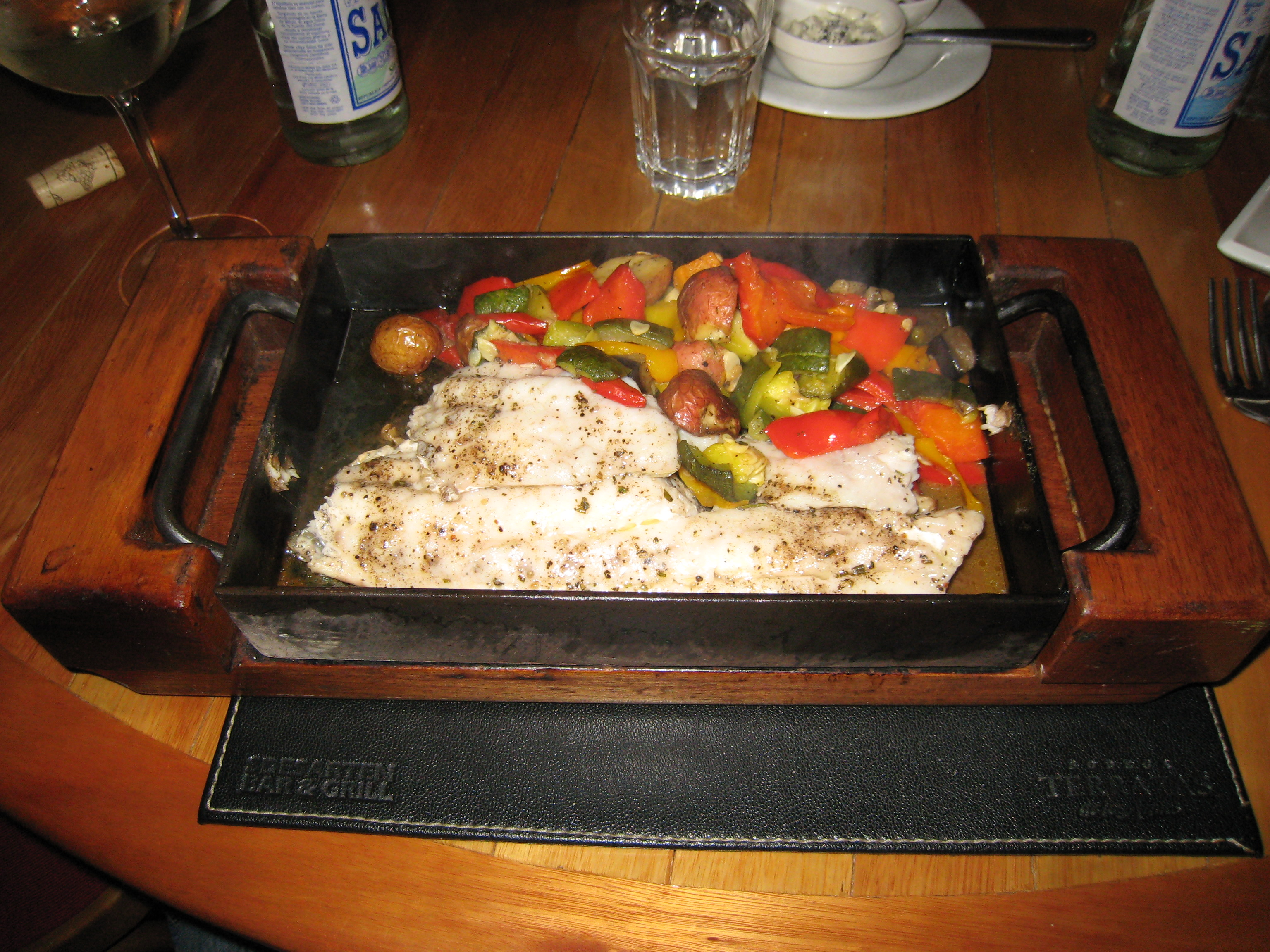 Fish in a box, Montevideo